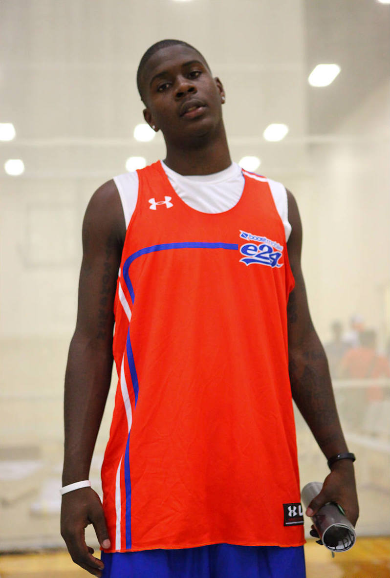 Josh Selby, elite 24 training.